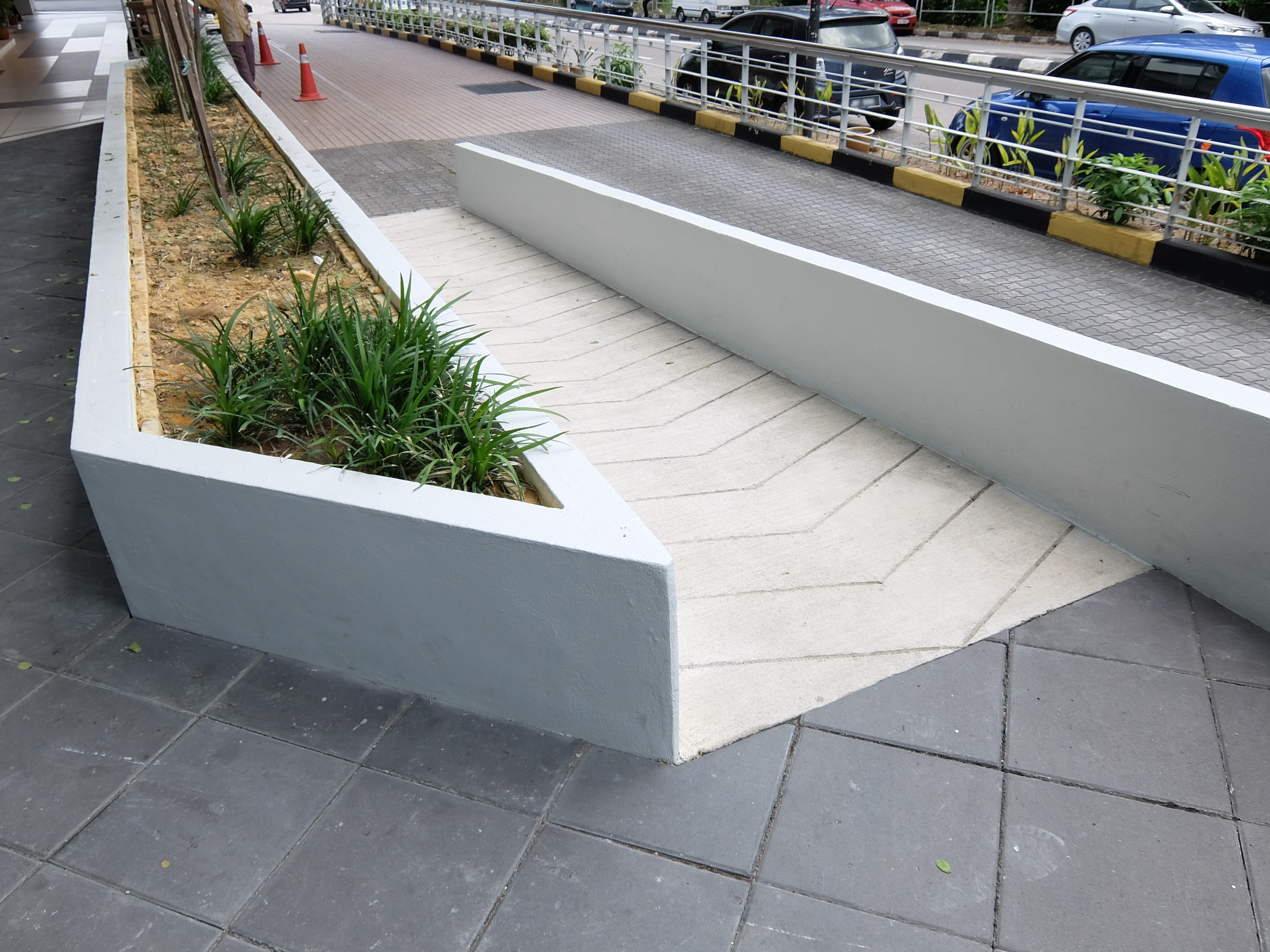 Pelangi Tower, Taman Pelangi, Johor Bahru, Johor, Malaysia